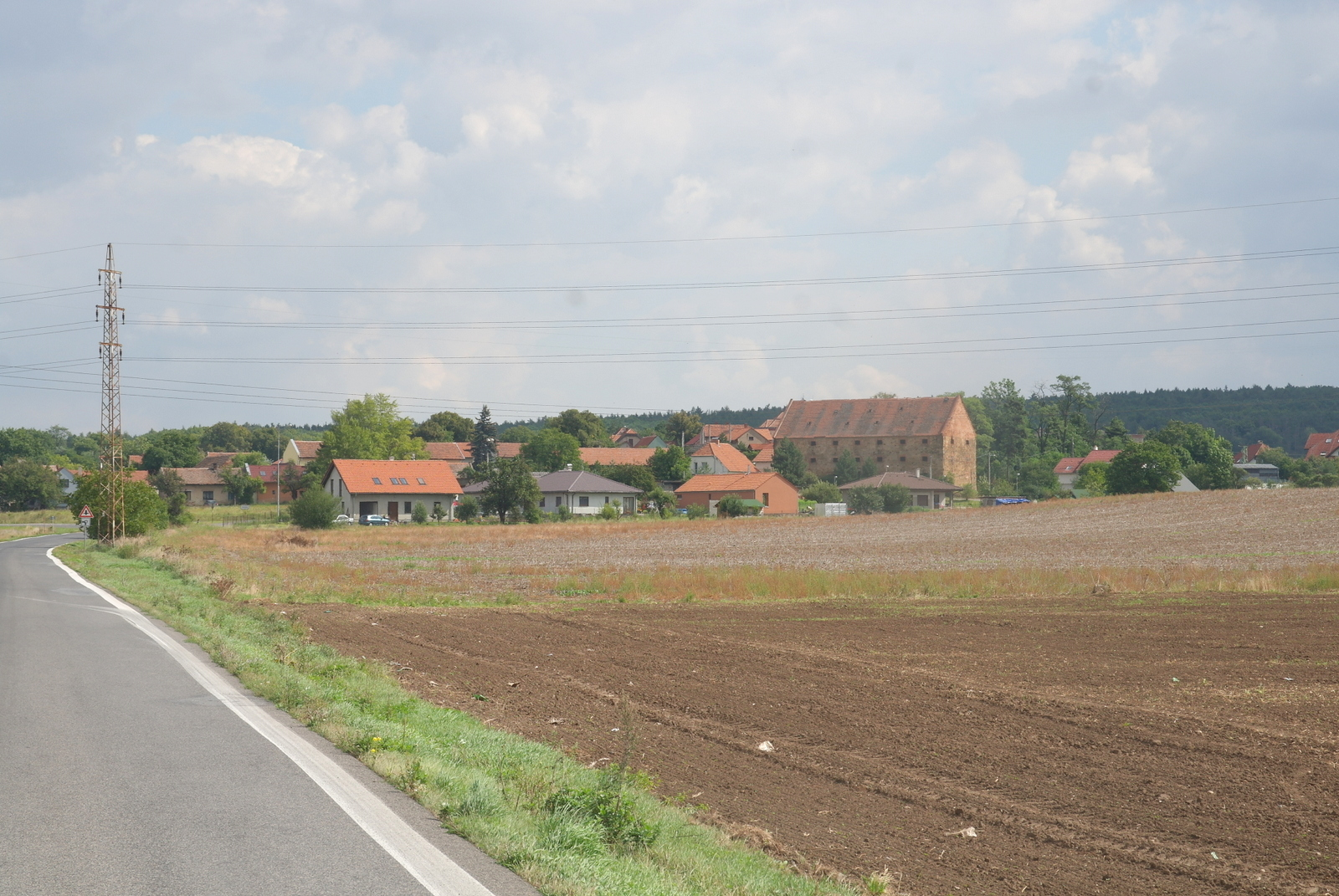 Zlosyň village, view from the road from Kralupy nad Vltavou.